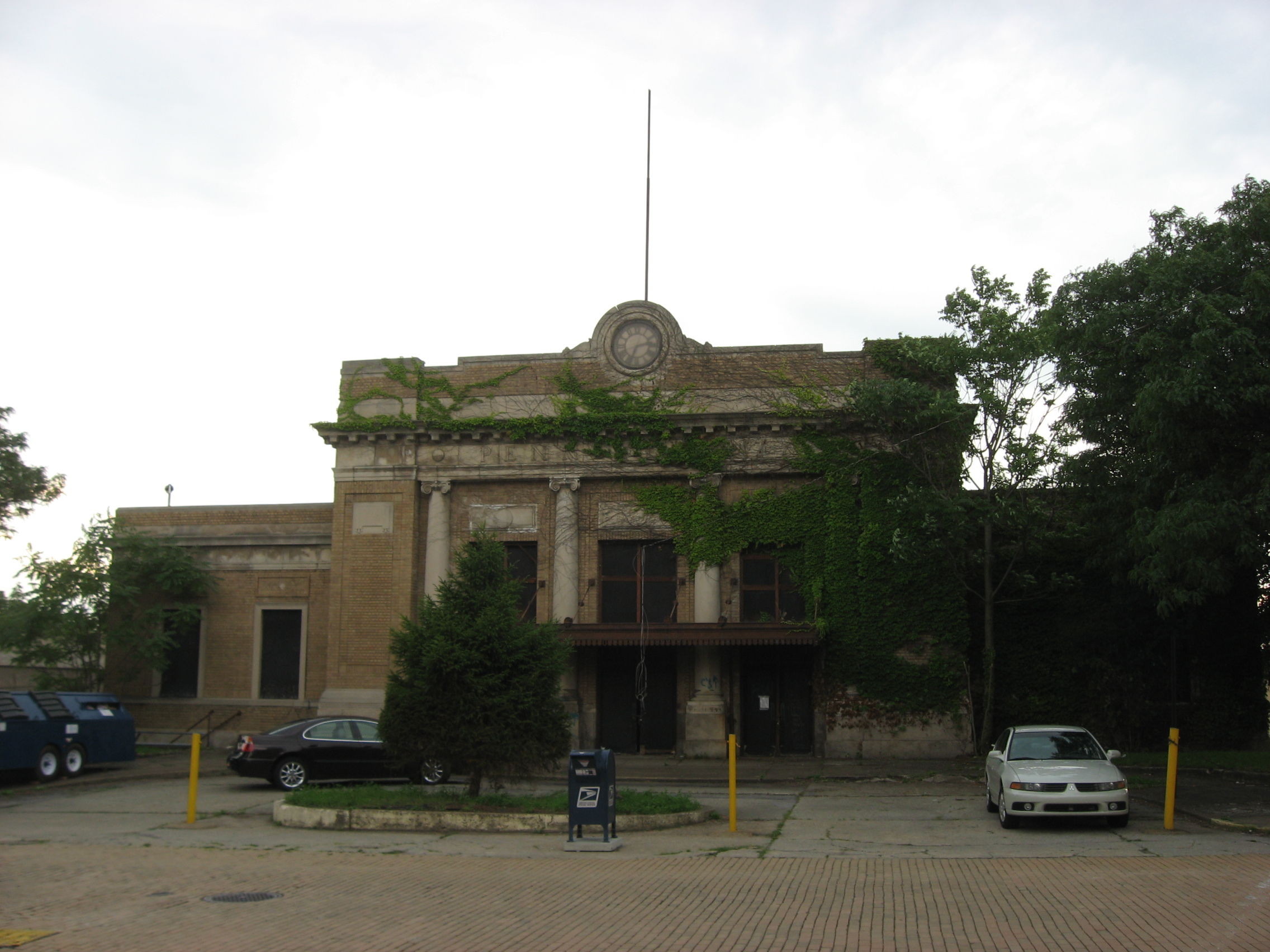 View of the Pennsylvania Railroad Station-Wilkinsburg, a National Register of Historic Places site at Hay and Wood Streets in the borough of Wilkinsburg in Allegheny County, Pennsylvania, United States, near Pittsburgh.